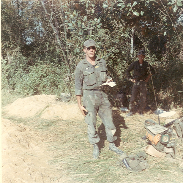 Capt. Pete Dawkins in Quang Ngai Province, South Vietnam during Operation Utah.